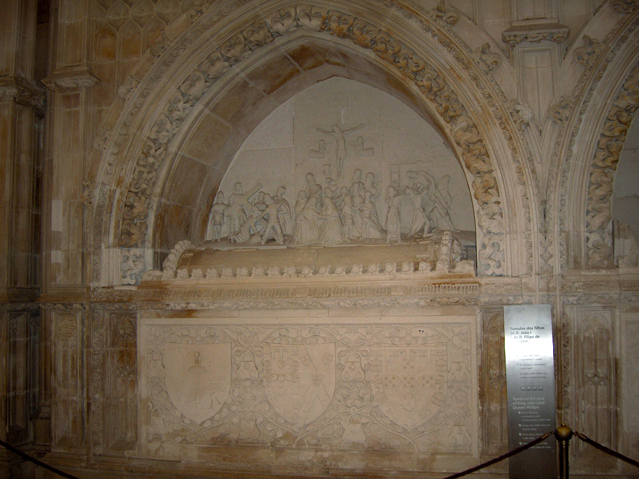 Tomb of Prince John, Lord of Reguengos de Monsaraz, Constable of Portugal (1400-1442), and his spouse Isabella of Braganza; Founder's Chapel; Monastery of Batalha, Portugal